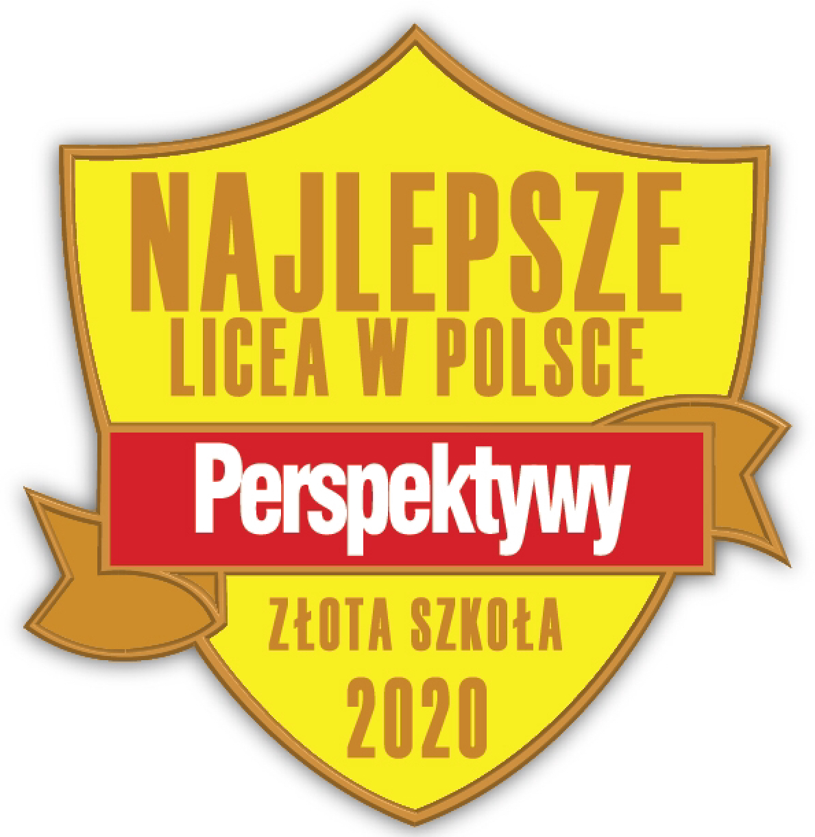 gold shield high school 2020 perspective